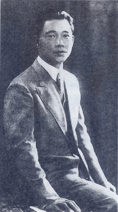 Wang Jingwei（1883/5/4－1944/11/10）, a Chinese politician who collaborated with the Japanese during the Second Sino-Japanese War (1937 - 1945)